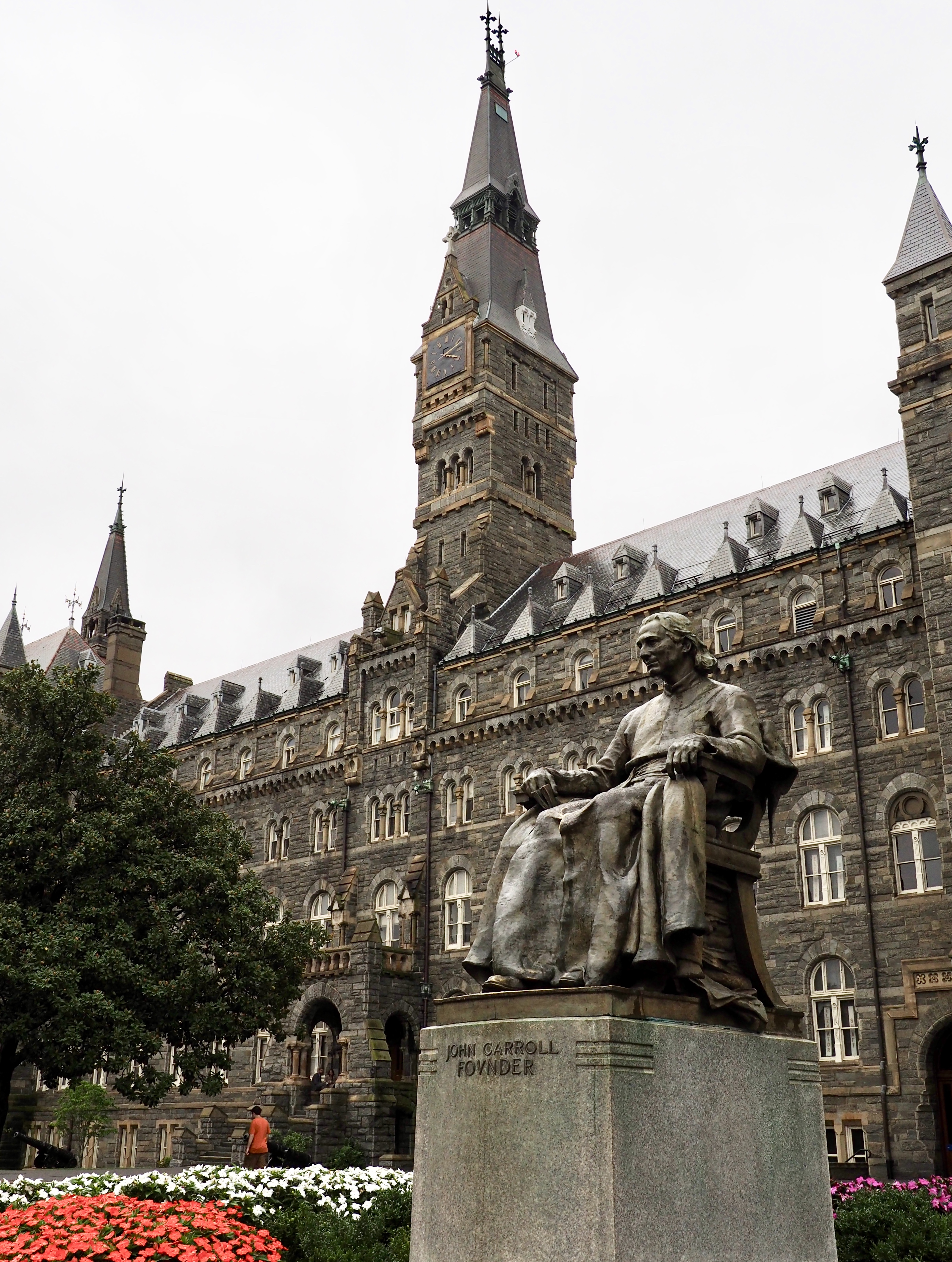 Building, Healy Hall Constructed between 1877–1879 @ main gate of Georgetown University. Statue, John Carroll (January 8, 1735 – December 3, 1815) was a high ranking clergy of the Roman Catholic Church who served as the first bishop and archbishop in the United States in the Archdiocese of Baltimore, Maryland. Carroll is also known as the founder of Georgetown University (the oldest Catholic university in the United States), Bishop John Carroll established the school in 1789 at its present location by the Potomac River after the American Revolution allowed for free religious practice.